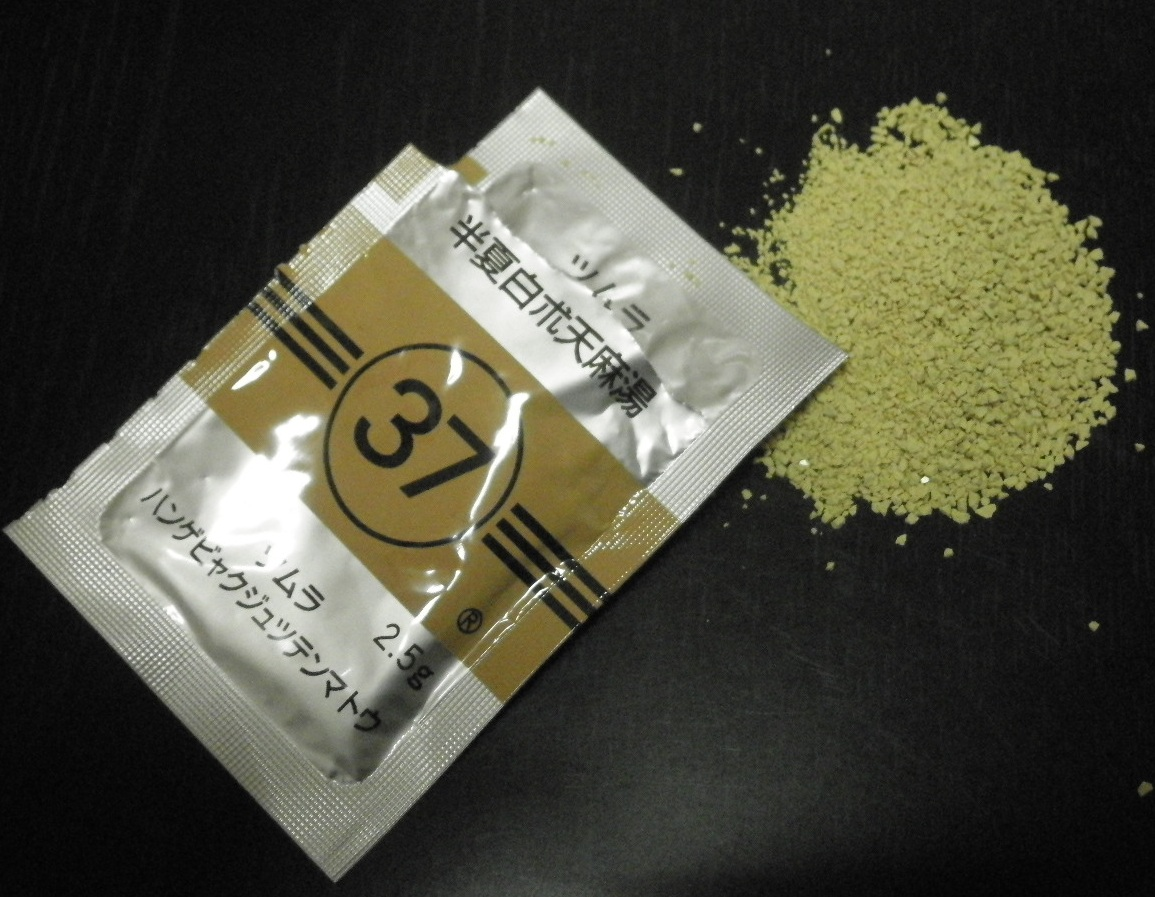 Chinese medicine whose name is Hangebyakujyututenmatou